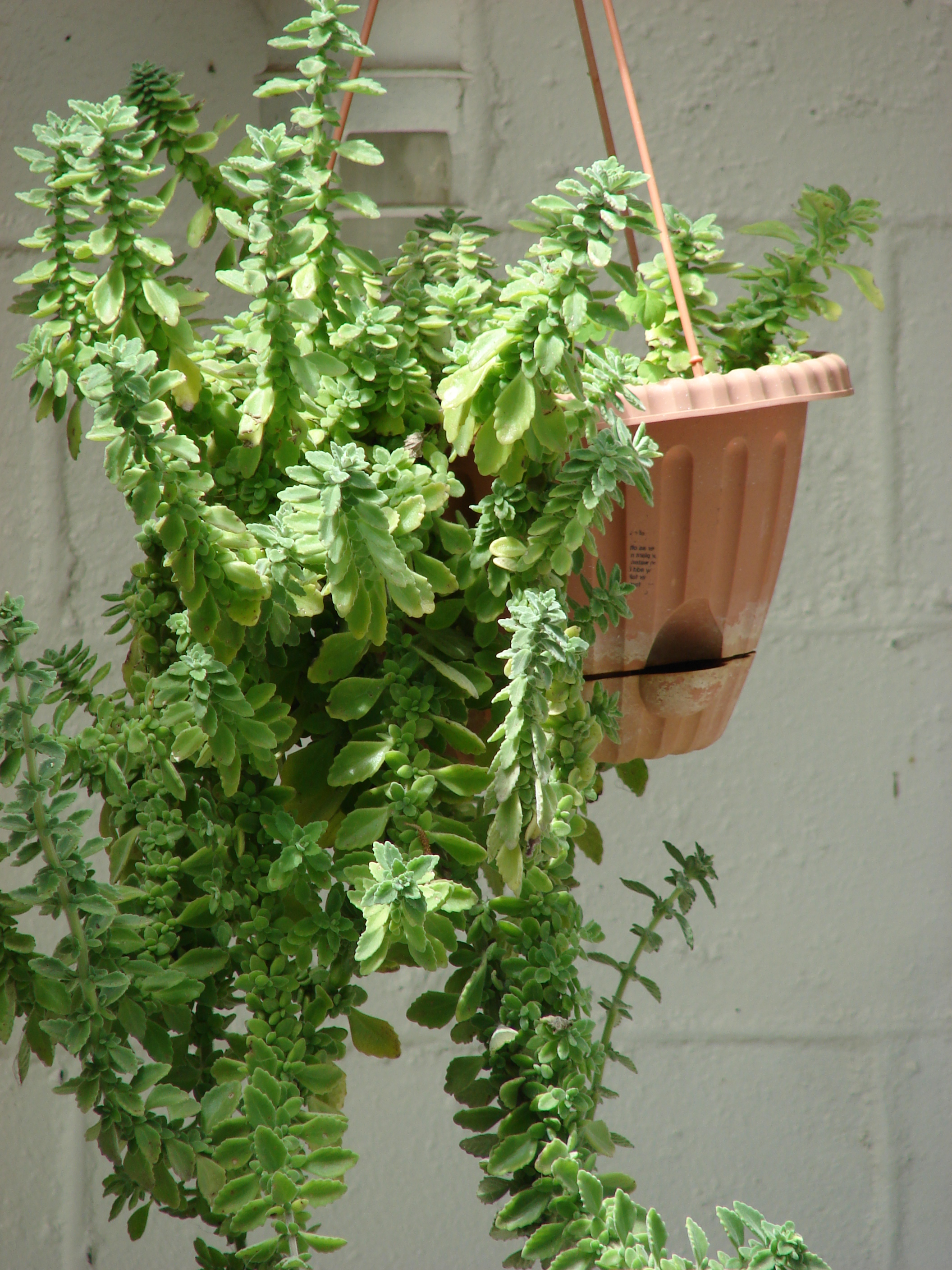 Plectranthus amboinicus (in hanging basket). Location: Midway Atoll, 4208 Commodore Ave Sand Island